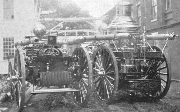 Electric fire engine next to a typical nineteenth-century steam fire engine